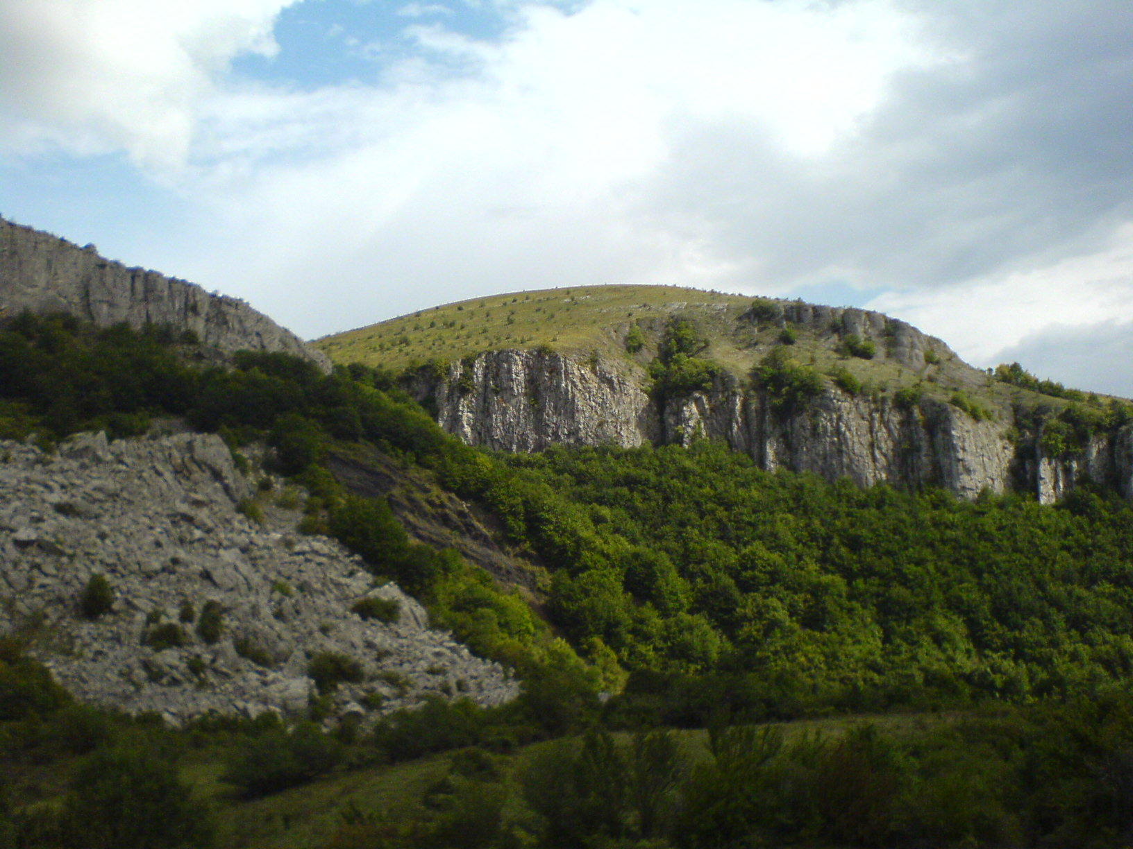 Village Dobravitsa, near city Svoge, Bulgaria.